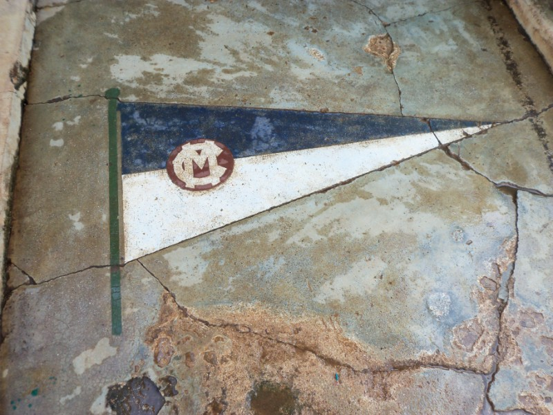 Flag at the Mercedita Club in Melena del Sur